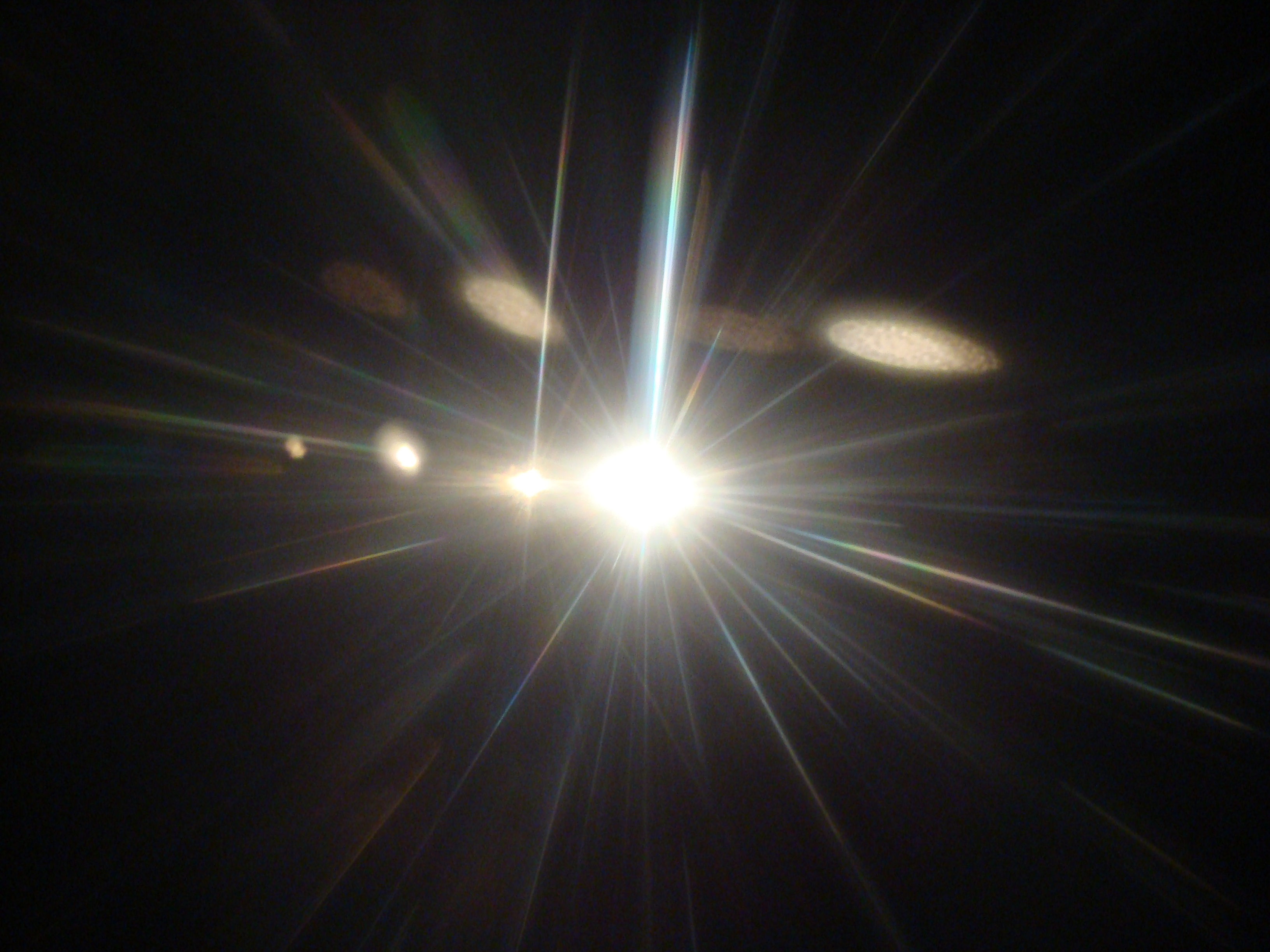 A powerful light shines in the dark.